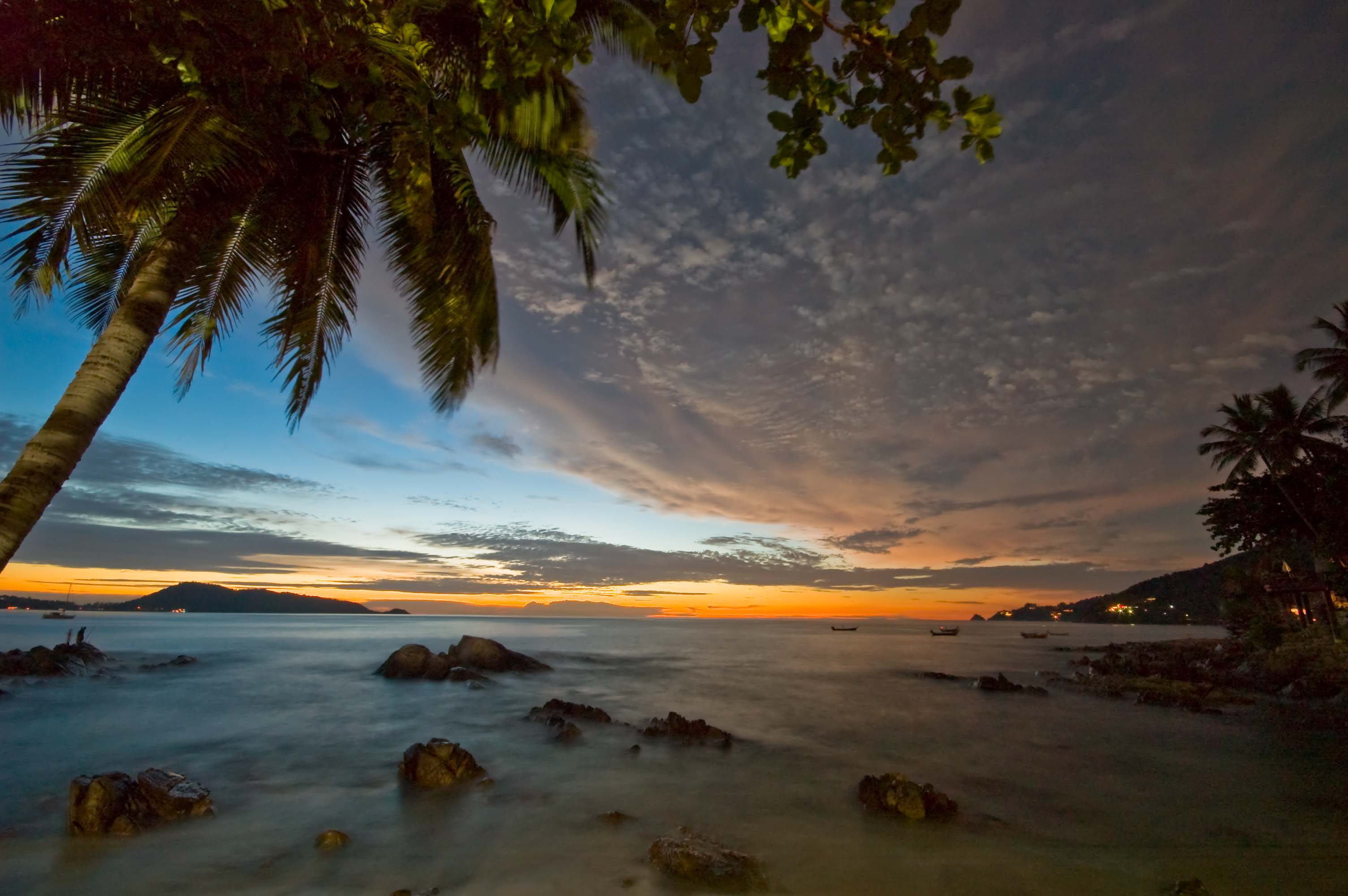 Palm tree at dawn, Patong Beach, Phuket Province, Thailand